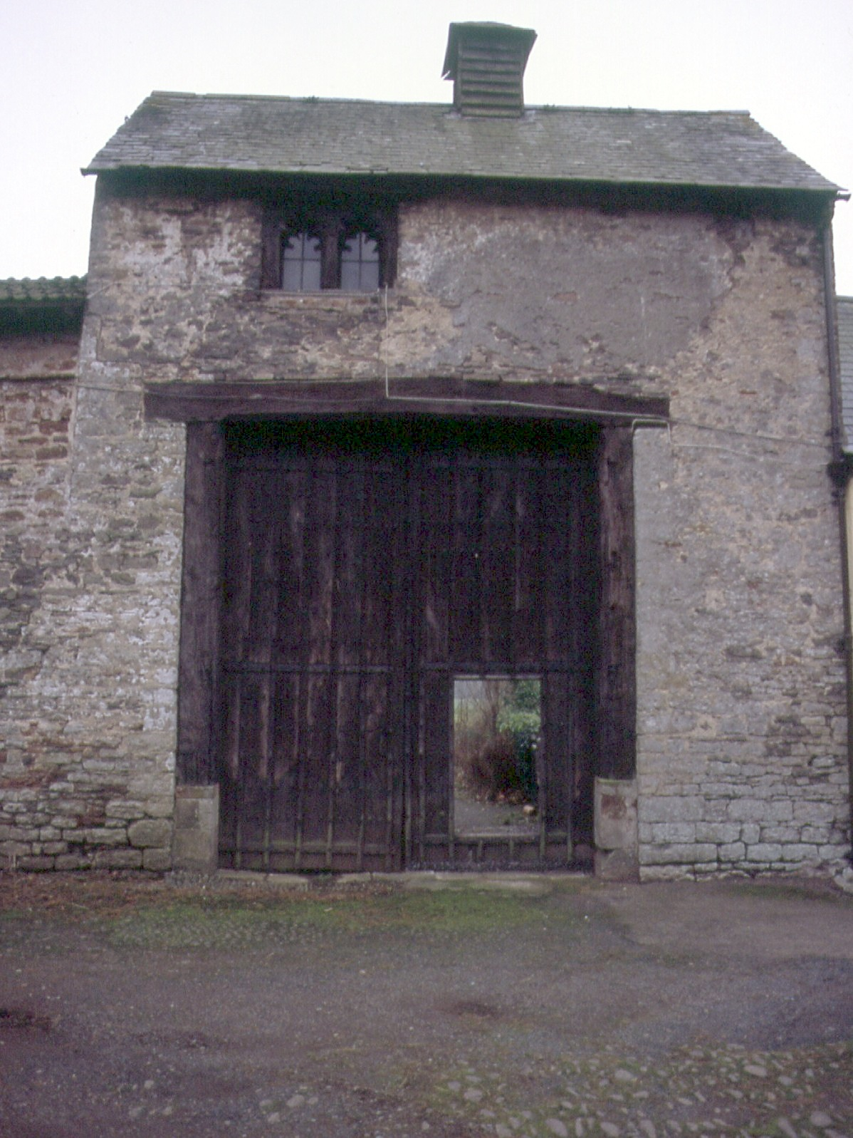 Medieval Gatehouse, Holnicote